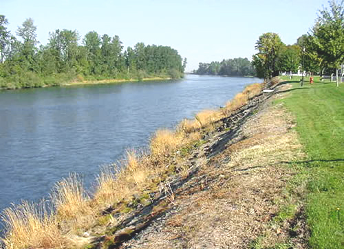 The Willamette River at Harrisburg.